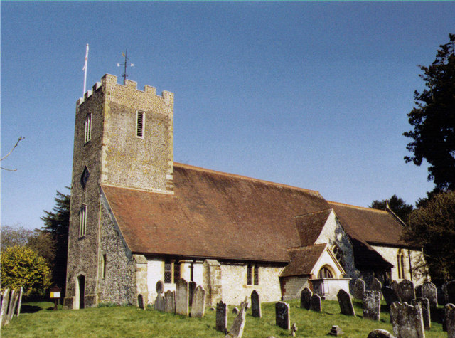 St Mary the Virgin parish church, Buriton, Hampshire, seen from the southwest